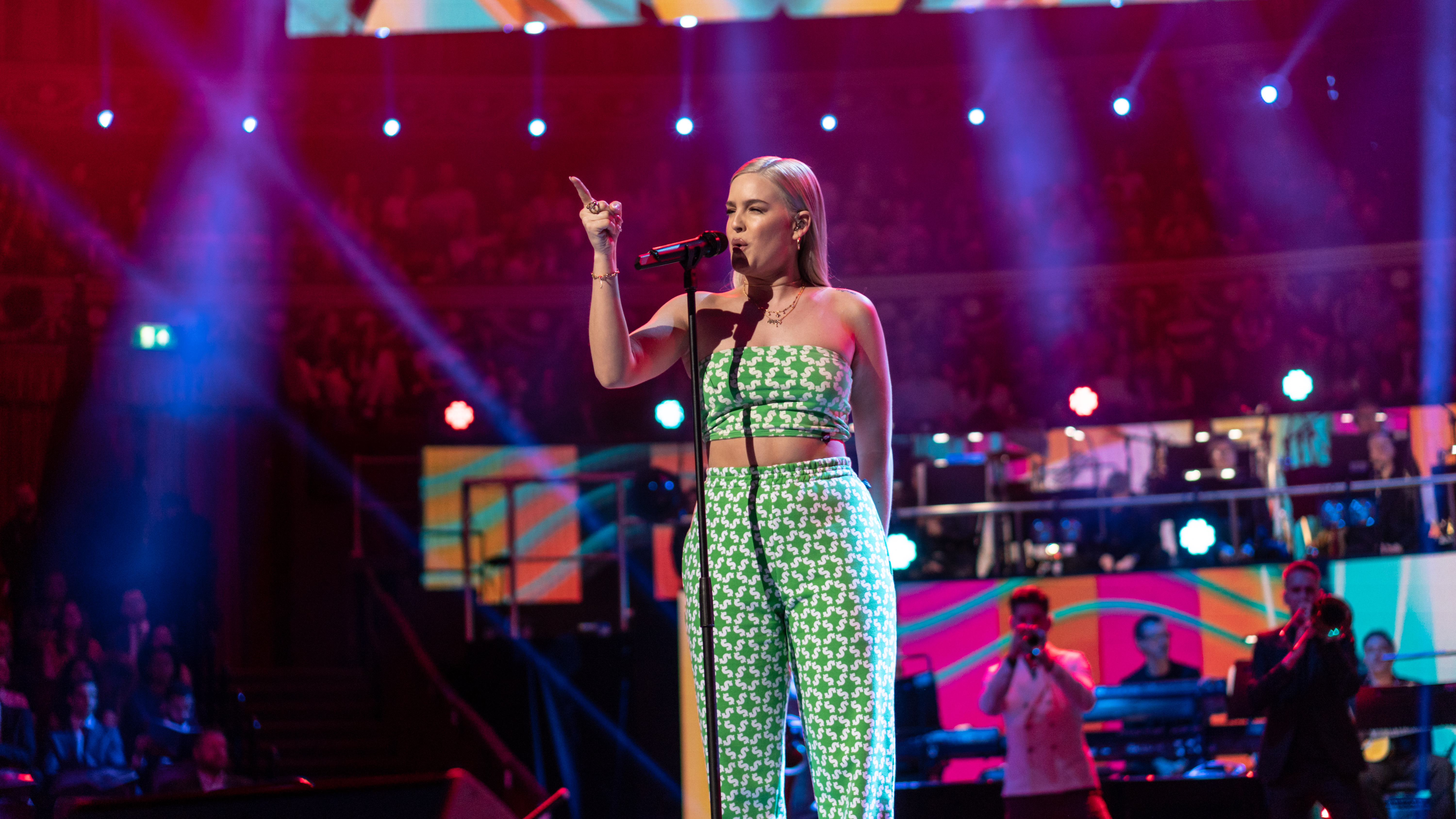 Anne-Marie at The Queen's Birthday Party